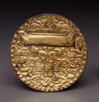 Central Andes, North Coast, Chimú or Lambayeque. Late Intermediate Period.